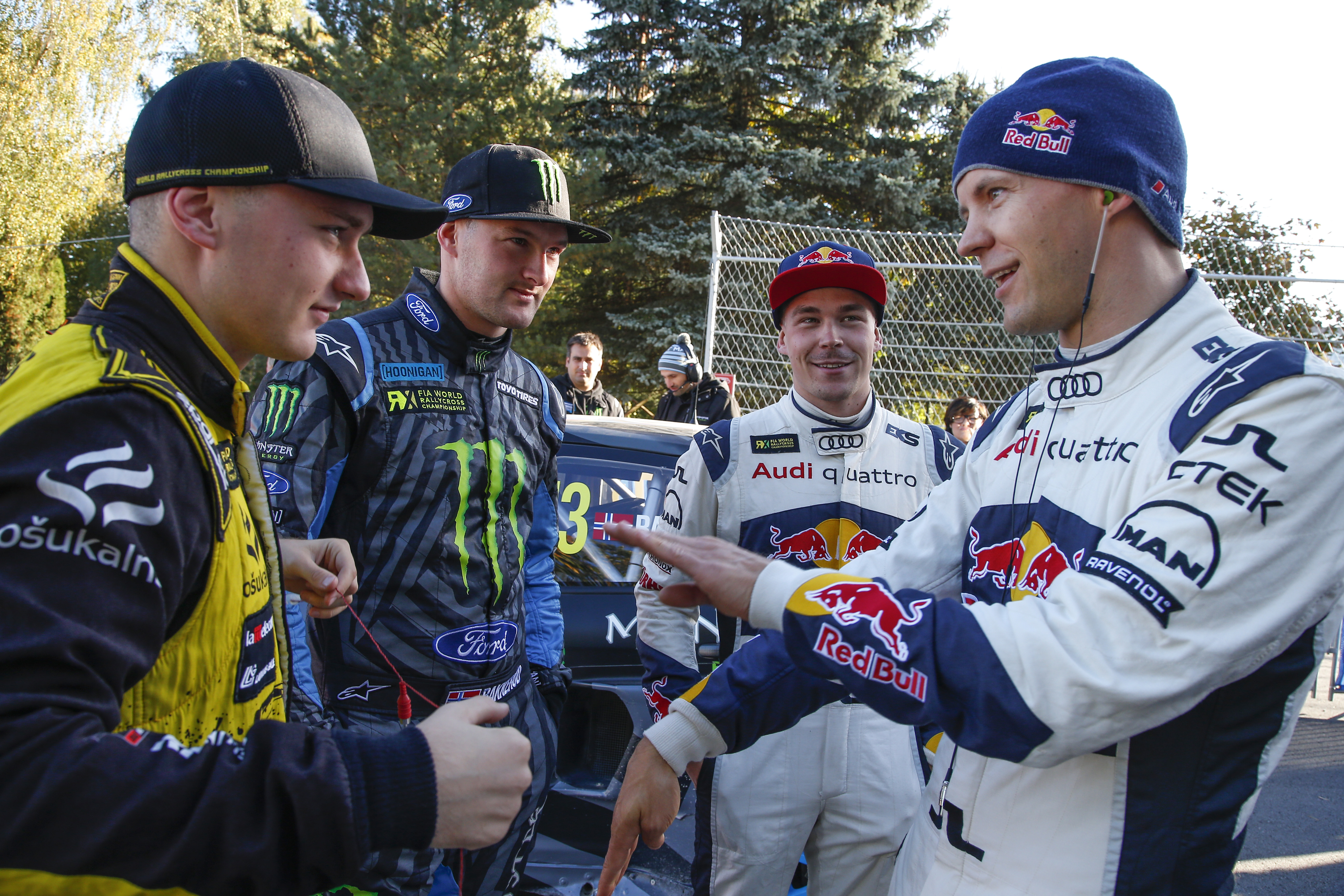 2016 FIA World RX Rallycross Championship / Round 10, Riga, Latvia, October 1-2 2016 // Worldwide Copyright:Tony Welam/EKS/McKlein